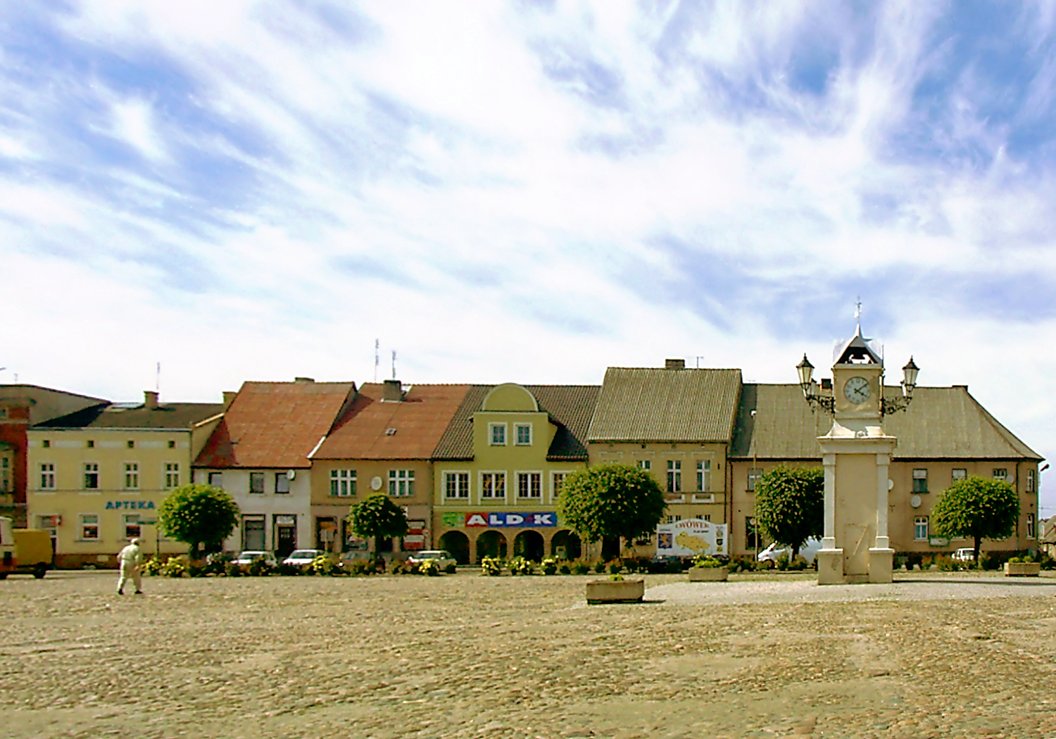 Lwówek, Market Square